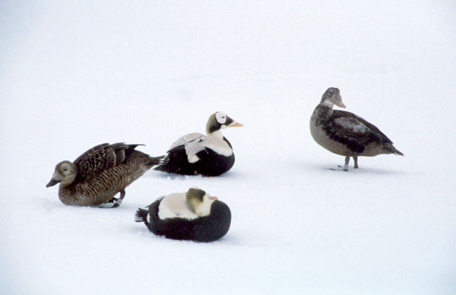 Four Spectacled Eiders (Somateria fischeri) in the snow.